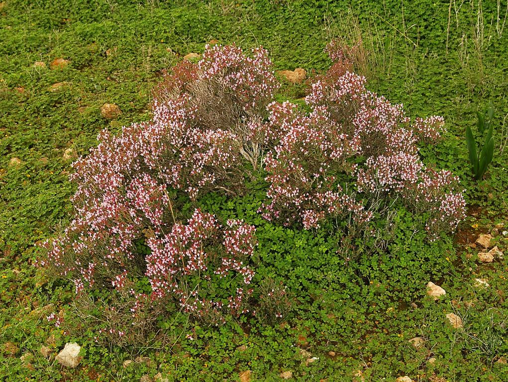 Thymus hiemalis, tomillo de invierno